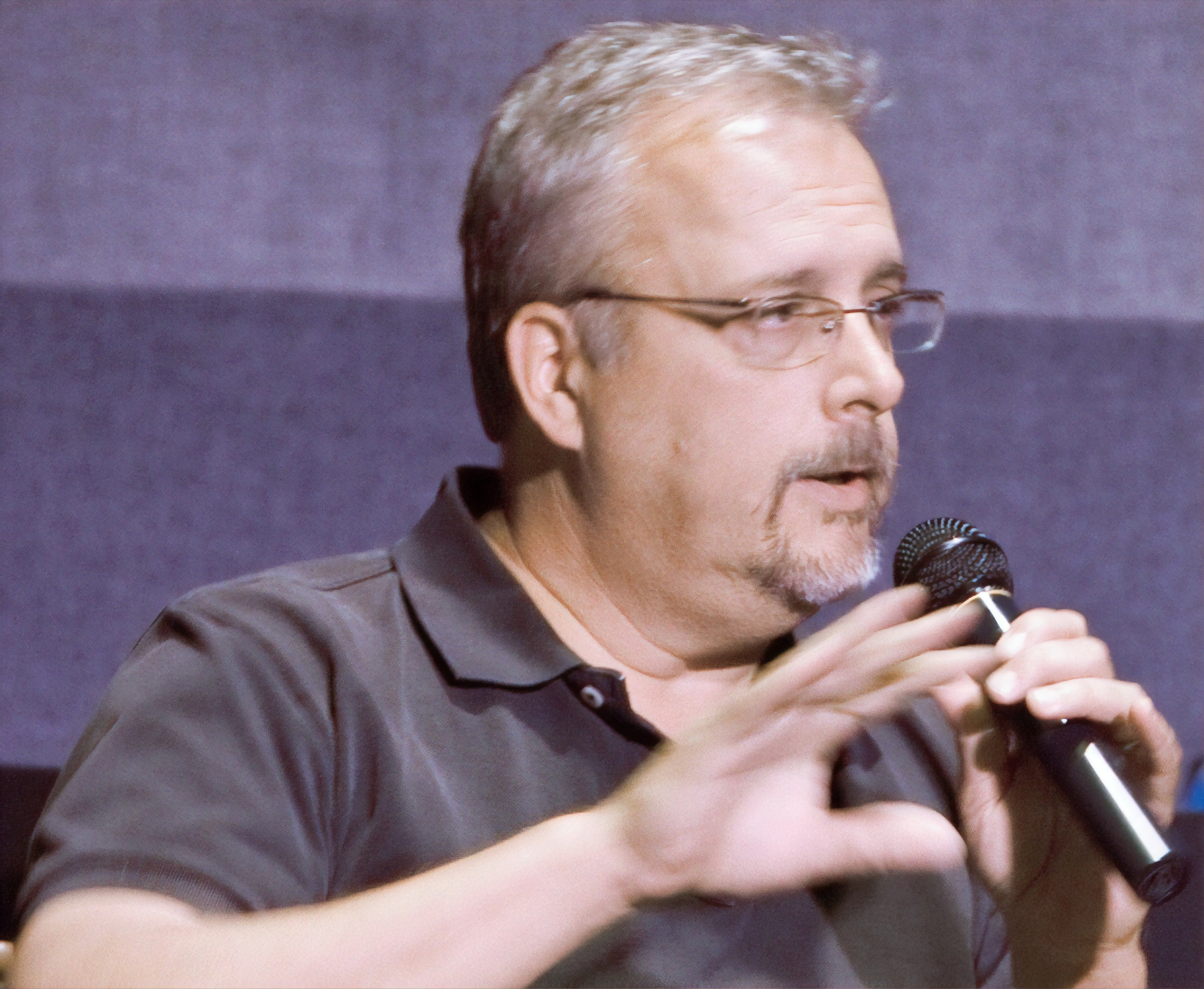 Original description: Two of the biggest names in feature film sound design dropped by VFS, treating a packed house to an in-depth look at their impressive body of work in films from directors like Terrence Malick, the Coen brothers, Martin Scorsese, and more.